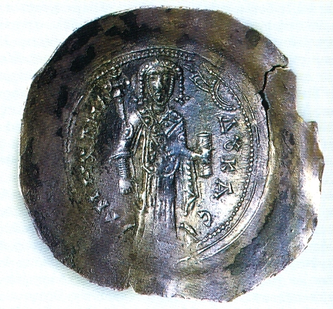 Coin depicting Michael II Komnenos Doukas, Despot of Epirus (1230-1271)